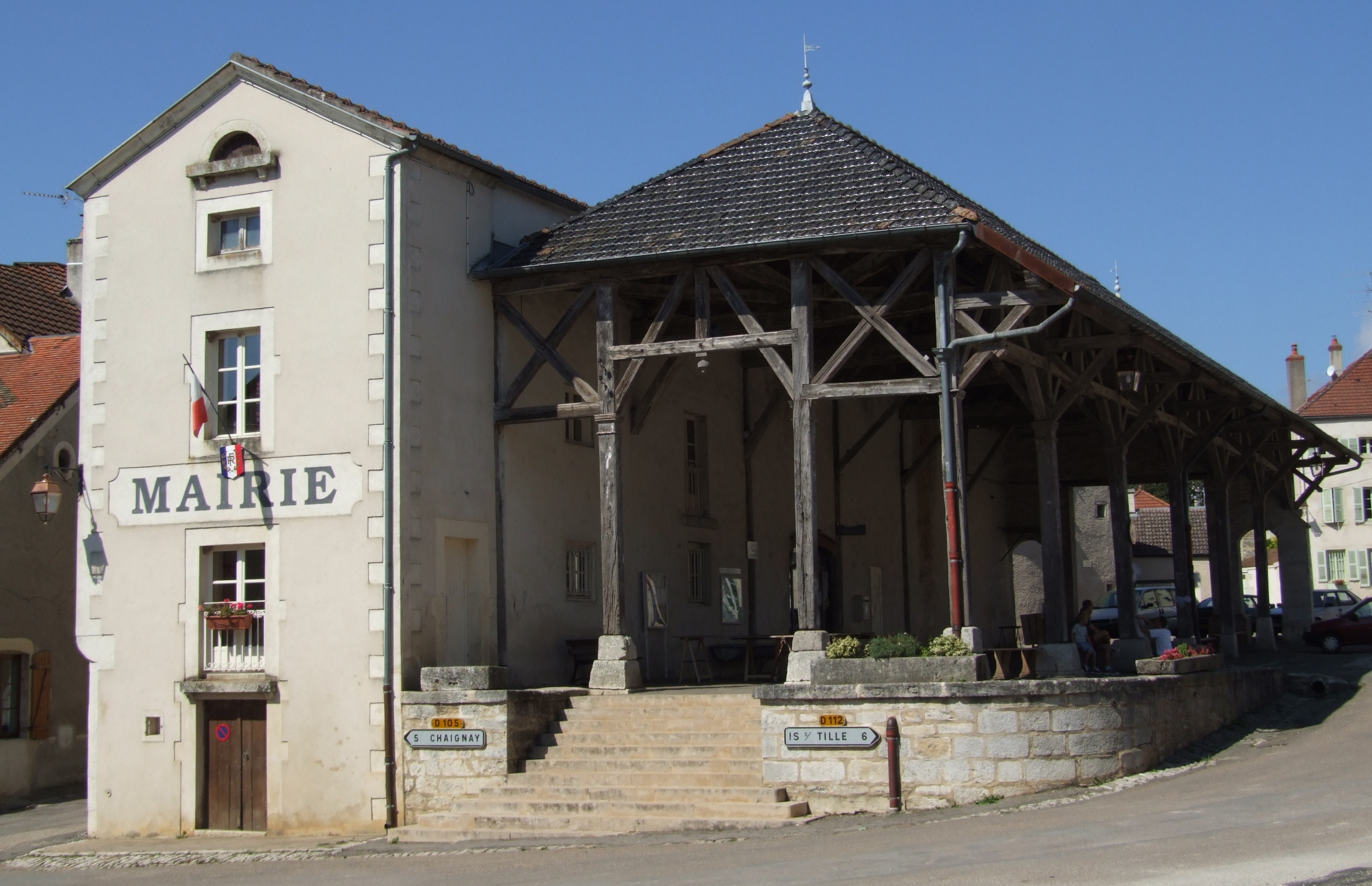 Townhall, Gemeaux, Bourgogne, FRANCE